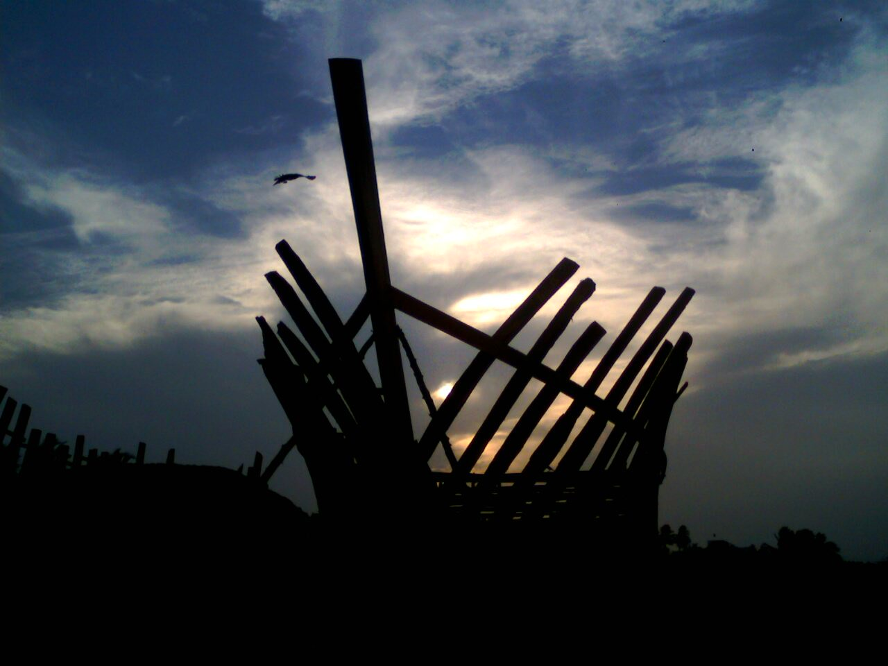 View of a Boat at Bheemunipatnam (being manufactured)